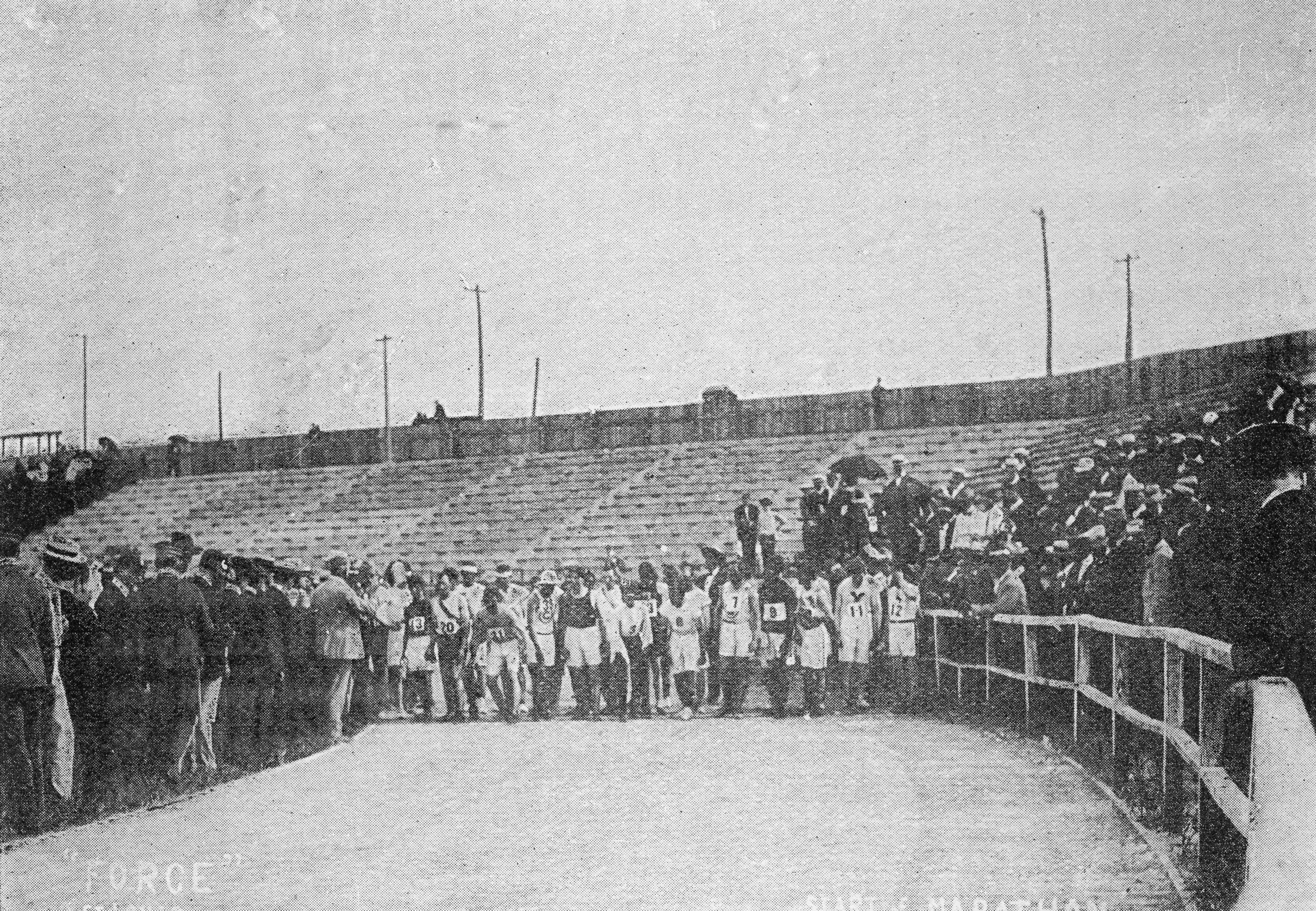 Book by Pierre de Coubertin